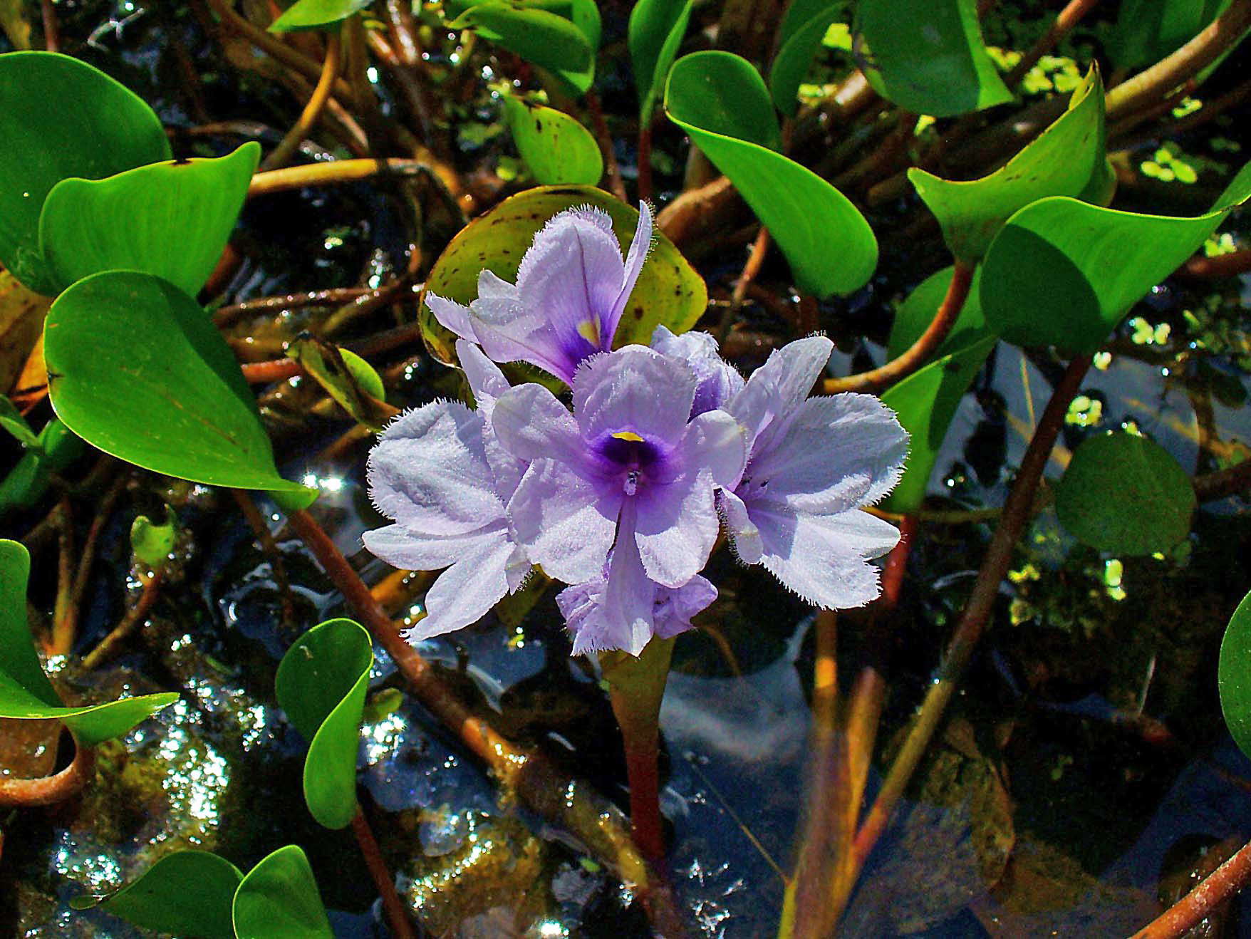 Eichhornia azurea, Pontederiaceae, Anchored Water-Hyacinth, inflorescence; Botanical Garden KIT, Karlsruhe, Germany.